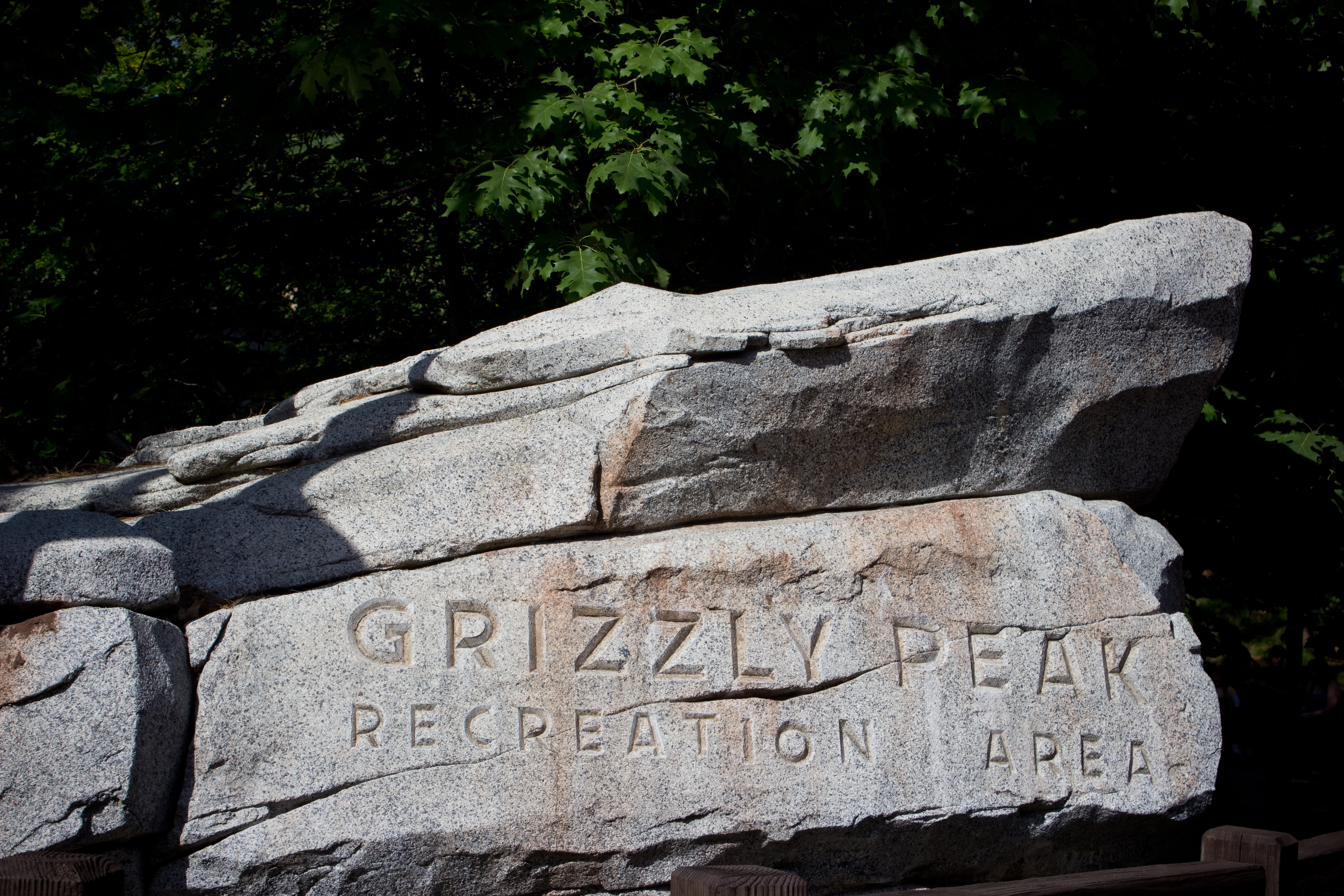 The signage for Grizzly Peak Recreation Area in Paradise Pier at Disney California Adventure.